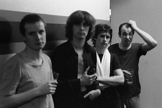 XTC At the Edge, Toronto, 1977/78